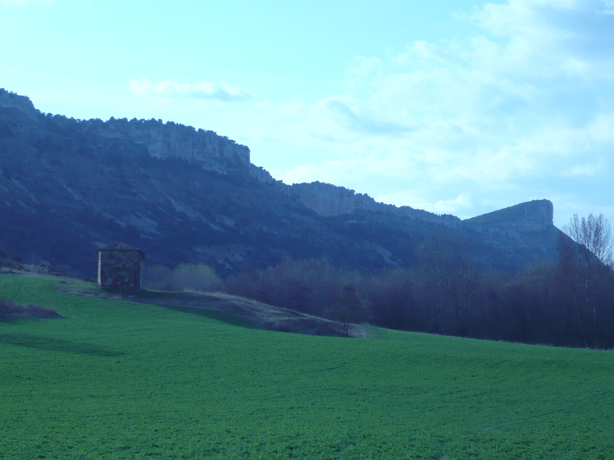 Hermitage of Saint John the Baptist at Barbadillo del Mercado (Burgos, Castile and León). Behind, the Sierra del Gayubar, a hanged syncline.